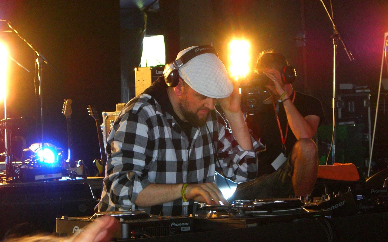 Glastonbury Festival 2009 - Tom Middleton DJ Set Tom Middleton at Glastonbury Festival 2009 - Worthy Farm, Pilton